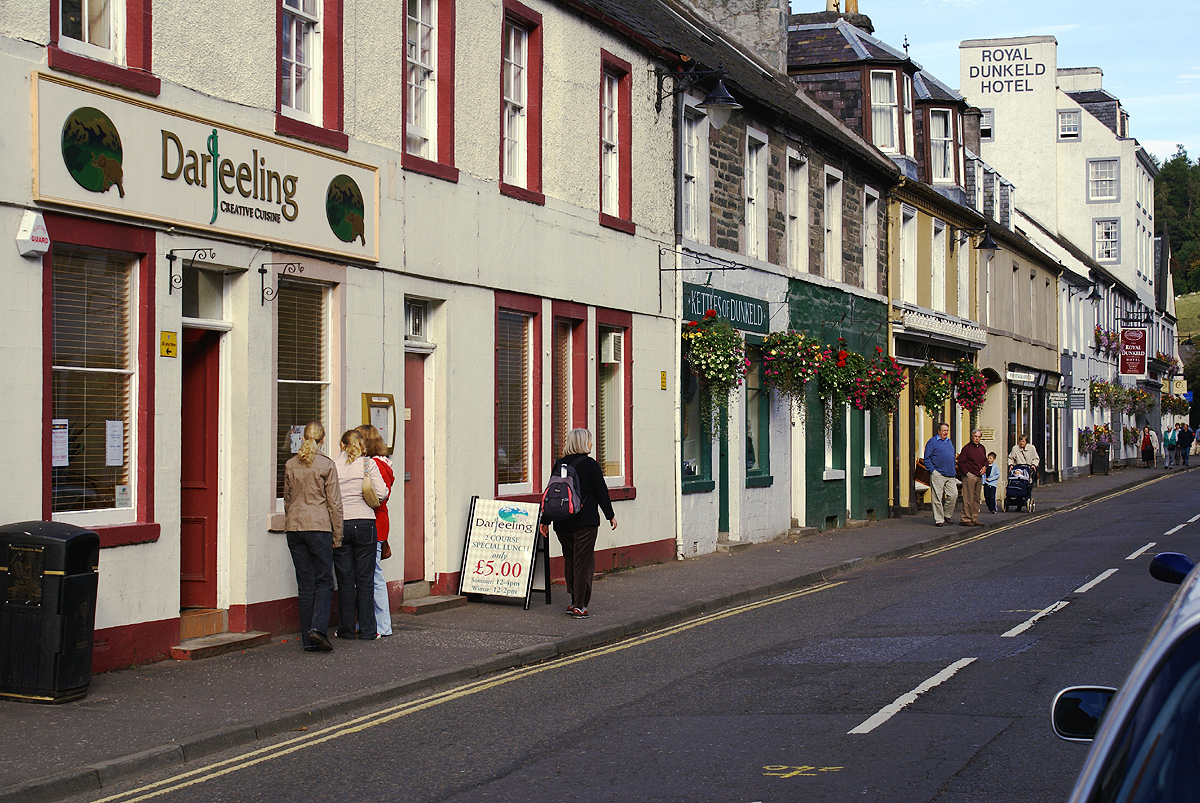 The mainstreet in Dunkeld, an important place in Scottish history